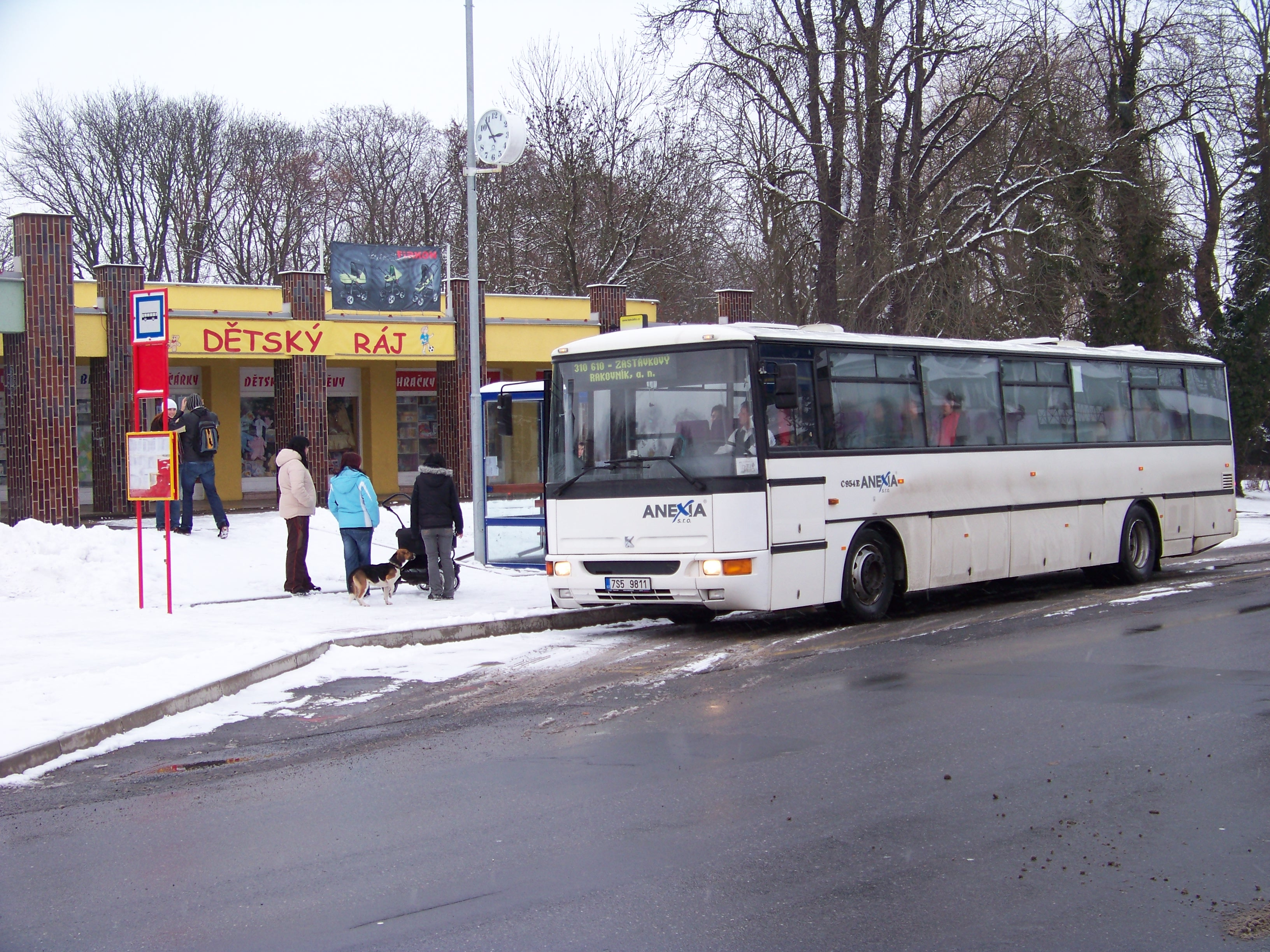 Tuchlovice, Kladno District, Central Bohemian Region, the Czech Republic. The Square and Karlovarská Street, a bus stop and bus of Anexia company.